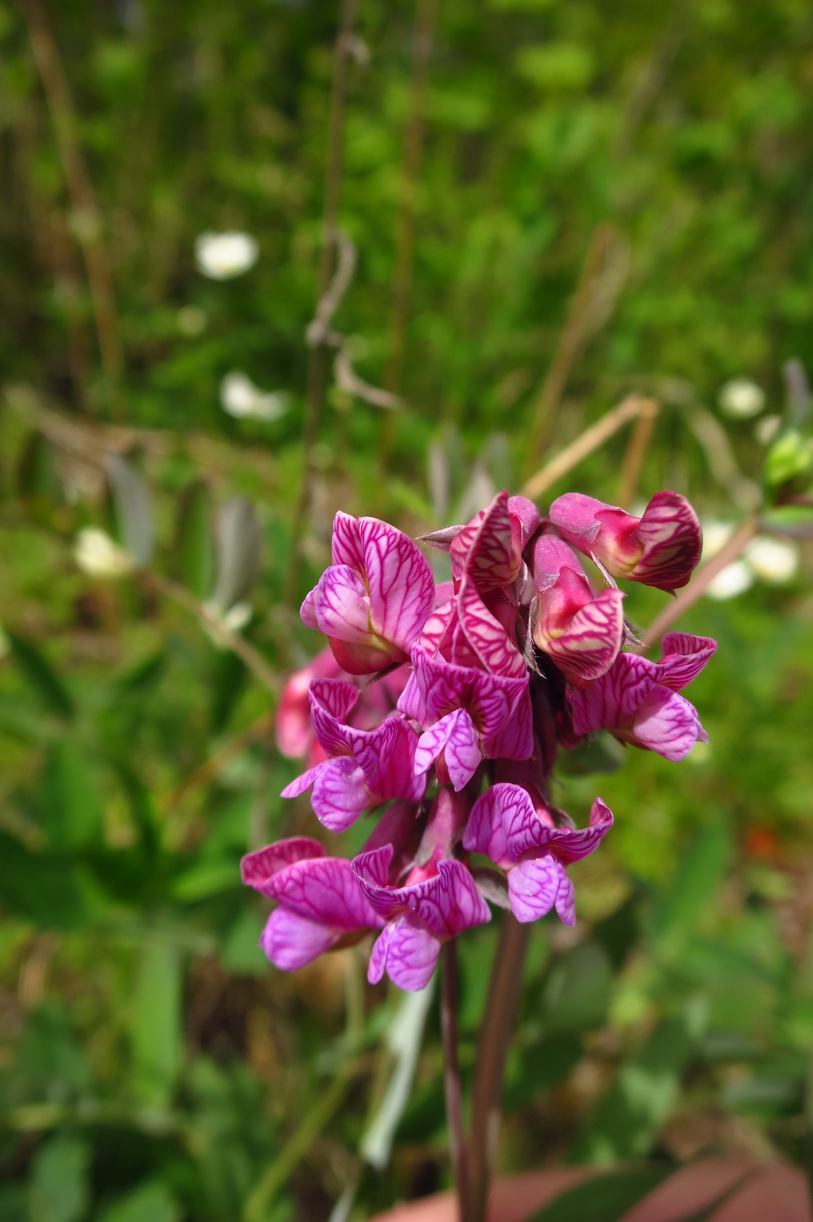 Lathyrus pisiformis in Estonia